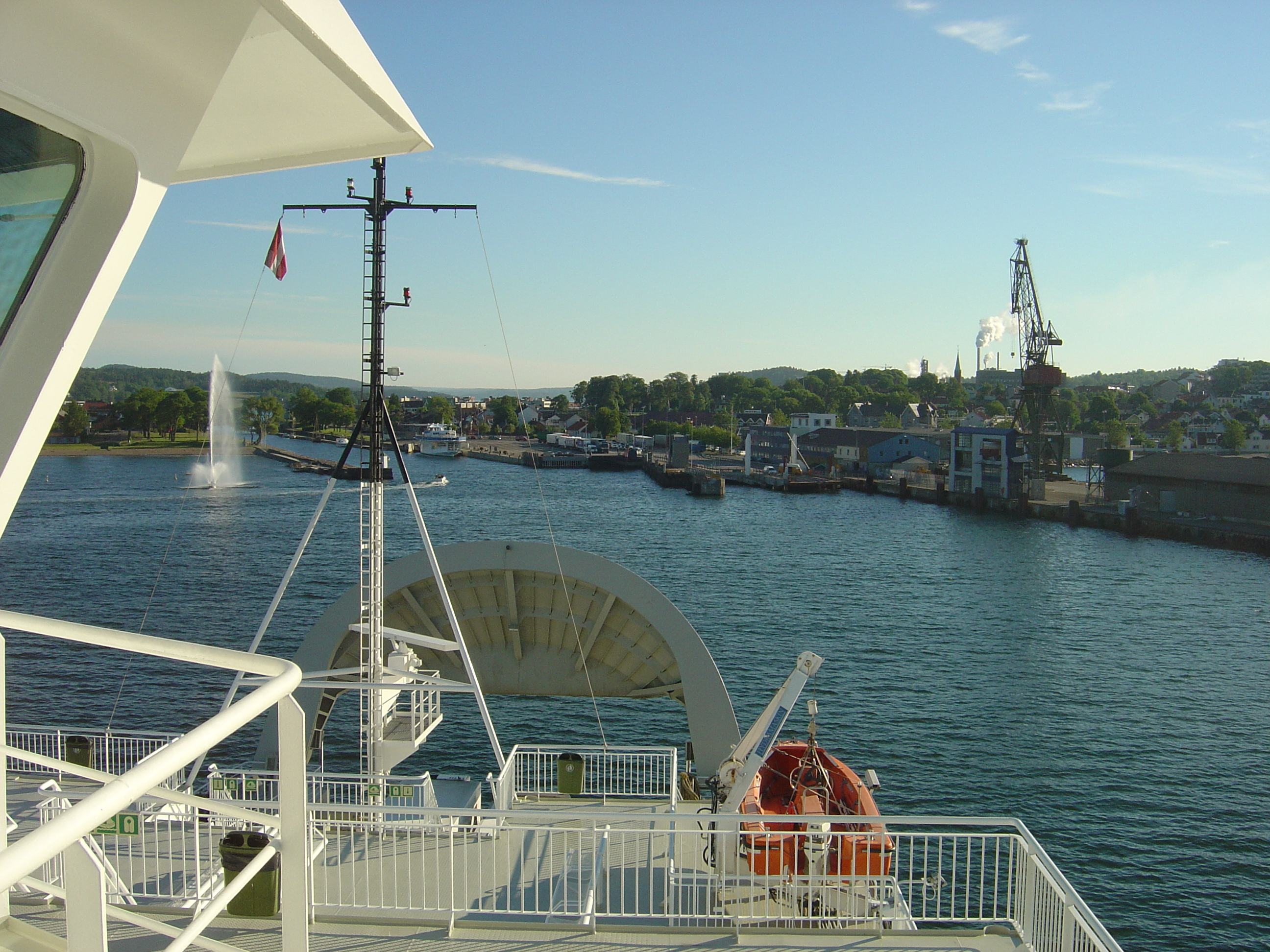 The ferry Bastø II entering Moss harbour